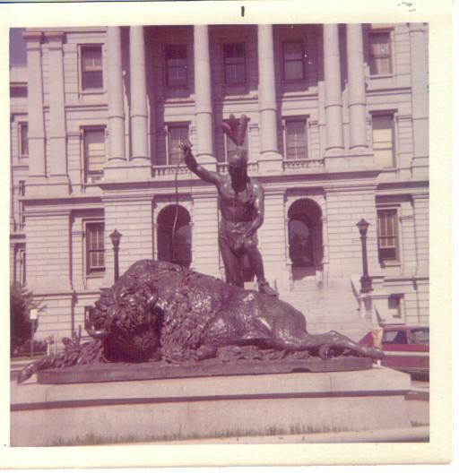 I took photo with Kodak camera at the Colorado state capitol.